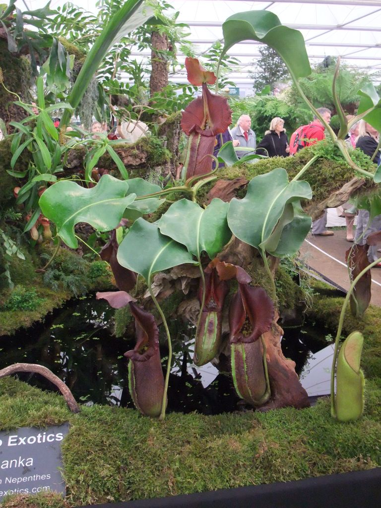 Nepenthes robcantleyi, 2011 Chelsea Flower Show